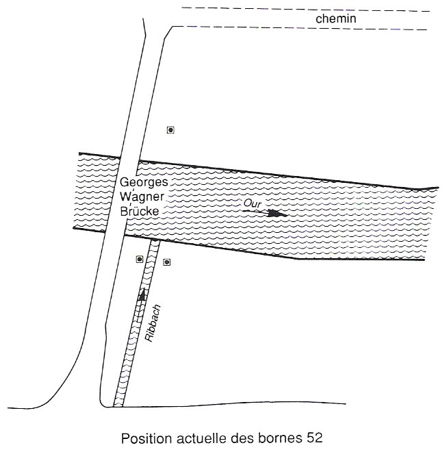 Map of the tripoint Belgium-Germany-Luxembourg with three markers no. 52 and French explanations.